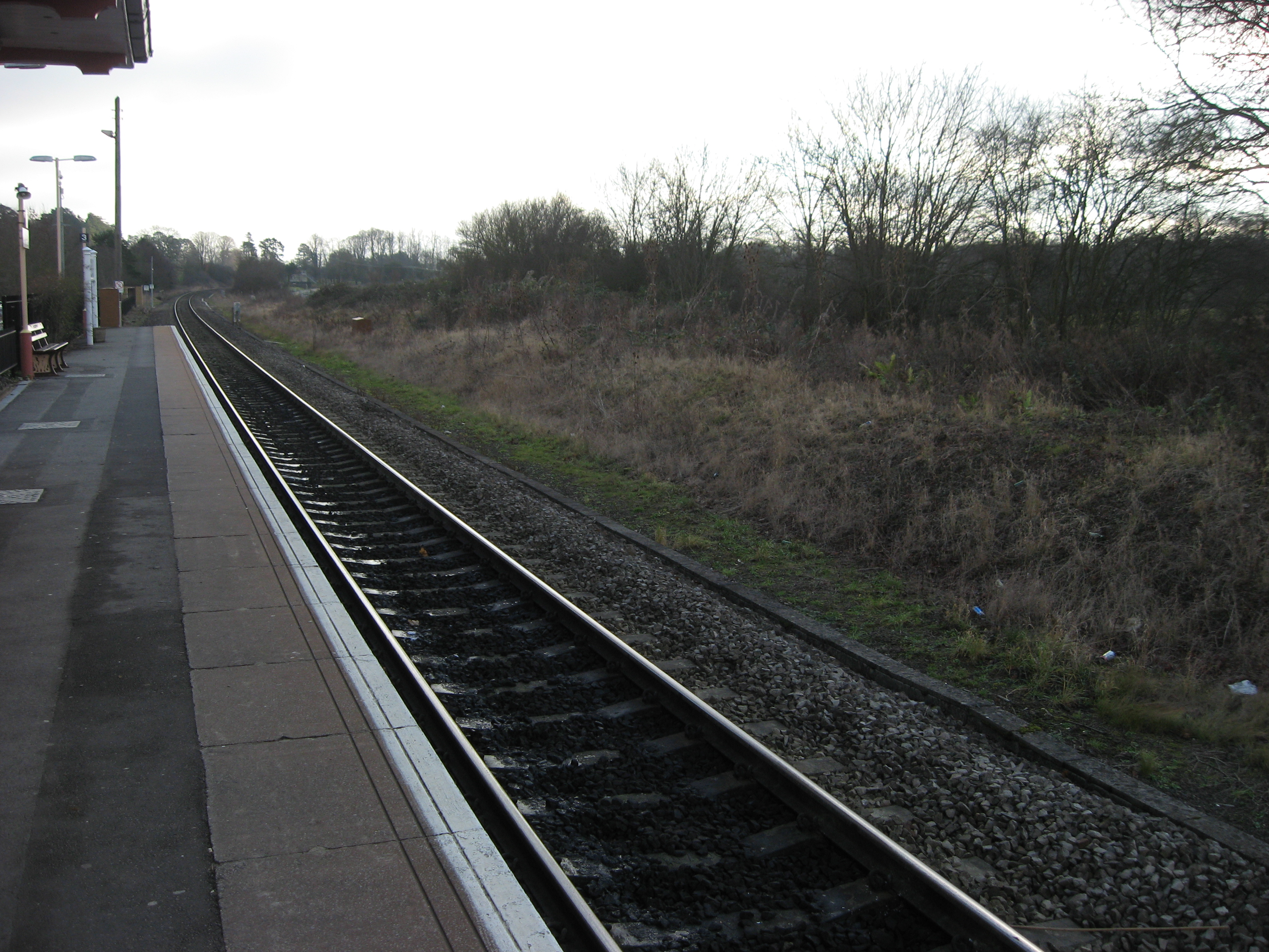 Rail track after singling, seen at Charlbury railway station, Oxfordshire.